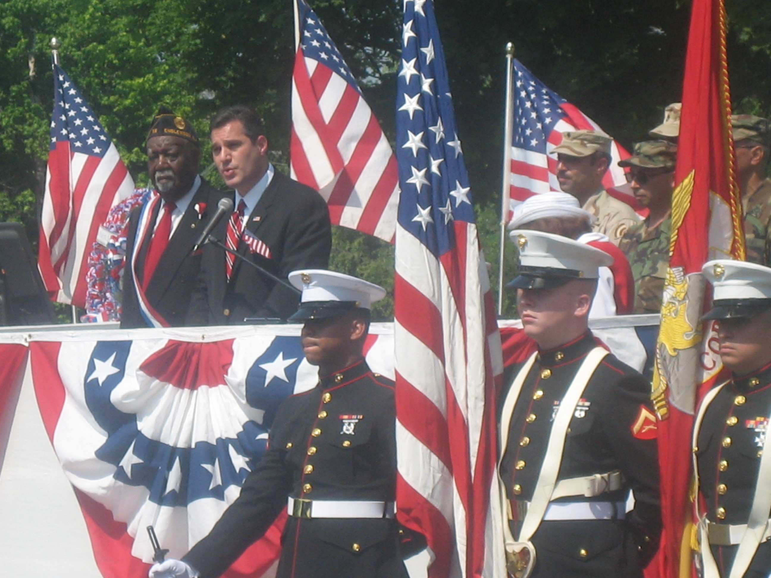 This is a picture of Englewood Mayor Michael Wildes giving a speech at a memorial day parade in 2006.